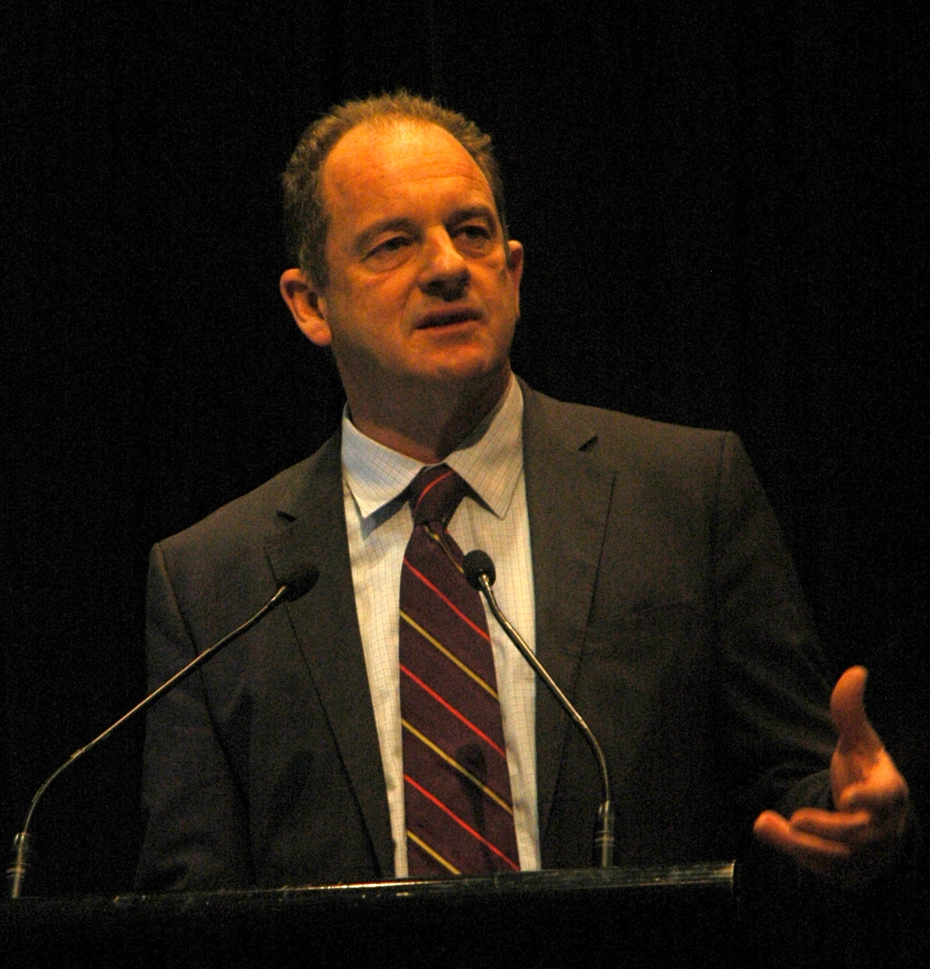 David Shearer, leader of the New Zealand Labour Party addressing Nethui 2012.